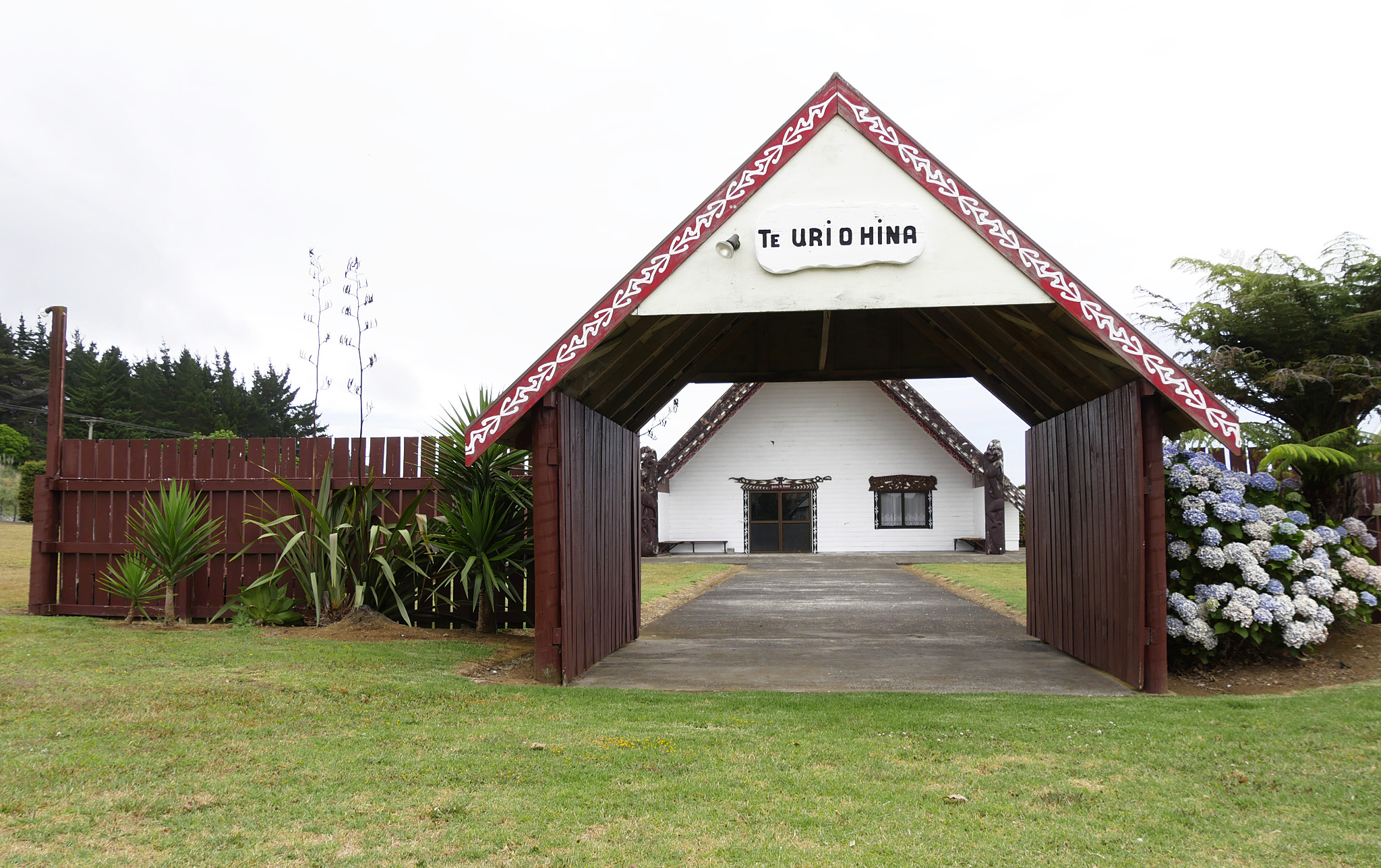 Te Uri O Hina Marae (entrance), Pukepoto, Northland, North Island, New Zealand